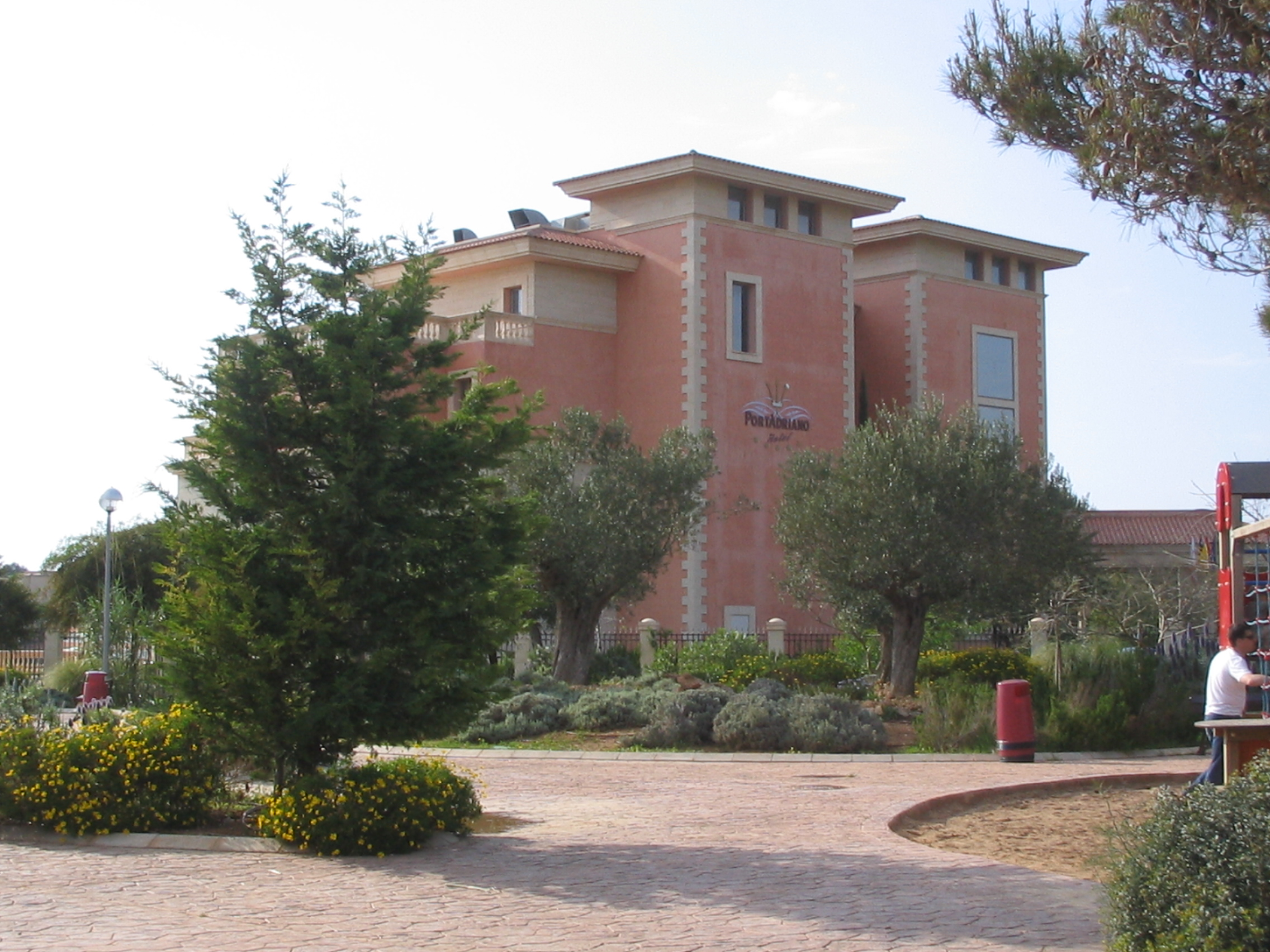 A five star hotel in a town called El Toro in Mallorca, Spain.